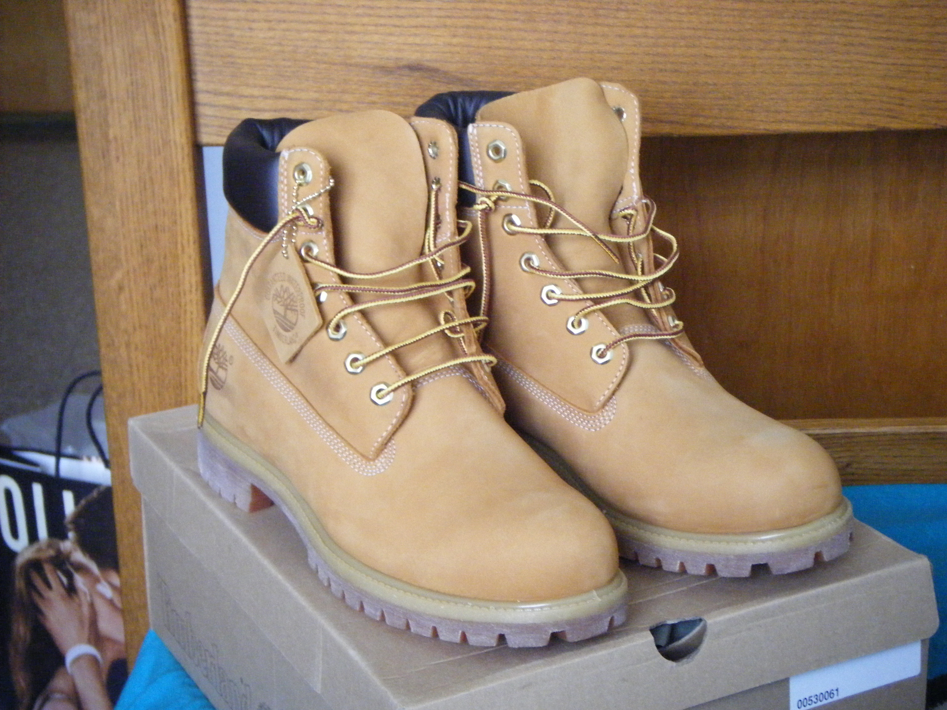 A pair of Timberland 6 inch boots